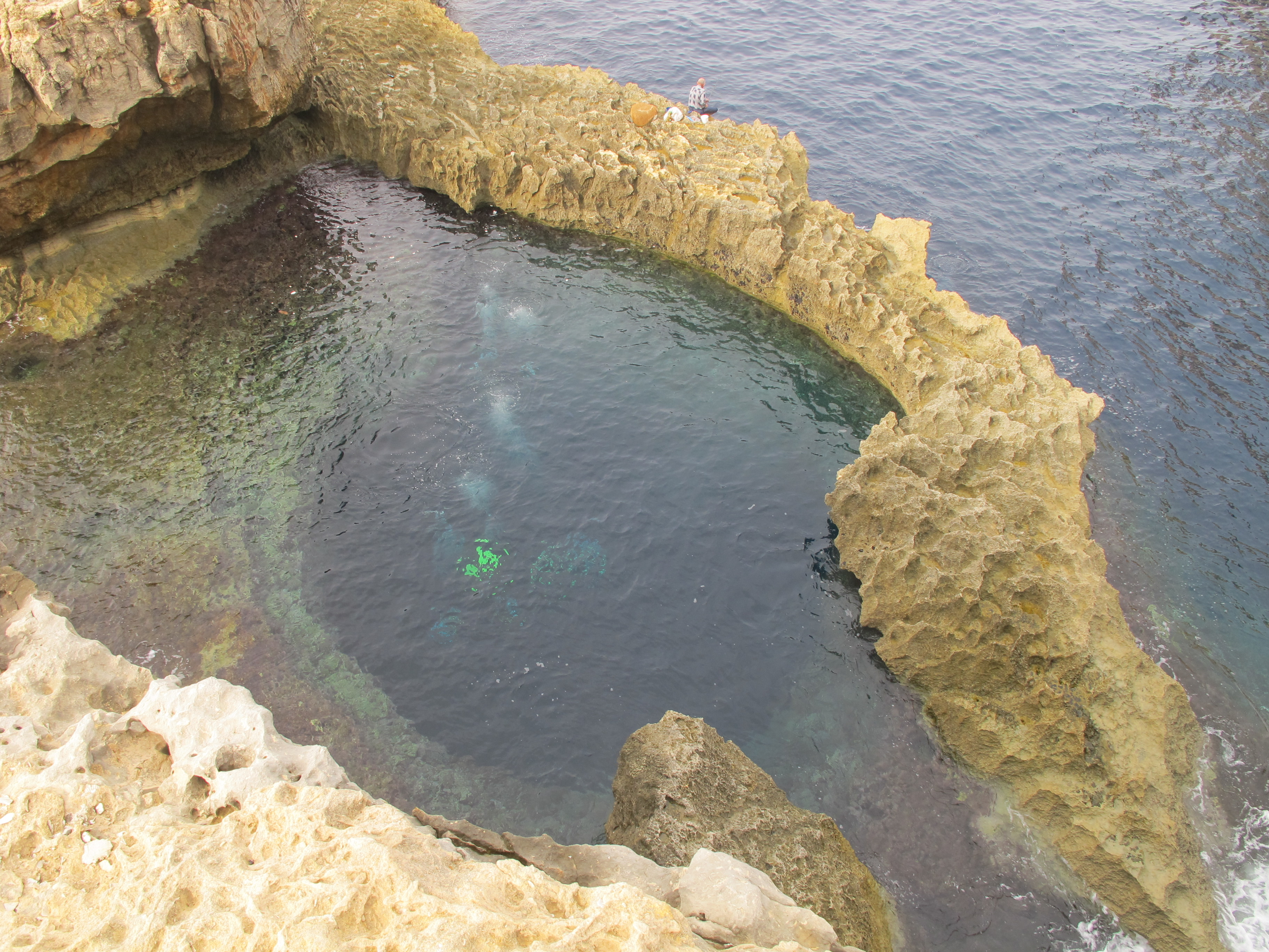 View from the cliffs down on the Blue Hole